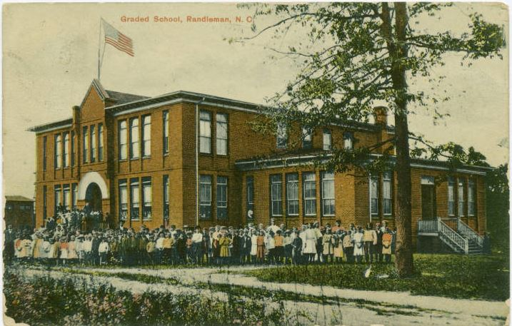 Randleman Graded School, 130 W. Academy St. Randleman. Image from the North Carolina Postcards Collection, North Carolina Collection, University of North Carolina at Chapel Hill.